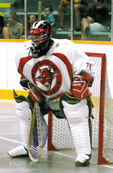 These images of Ontario Junior B Lacrosse Action action during the 2014 season are taken by Devan Mighton.